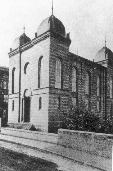 Synagogue of Zweibrücken in Germany. Built in 1879 and destroyed by the Nazis during Cristal Night in 1938.